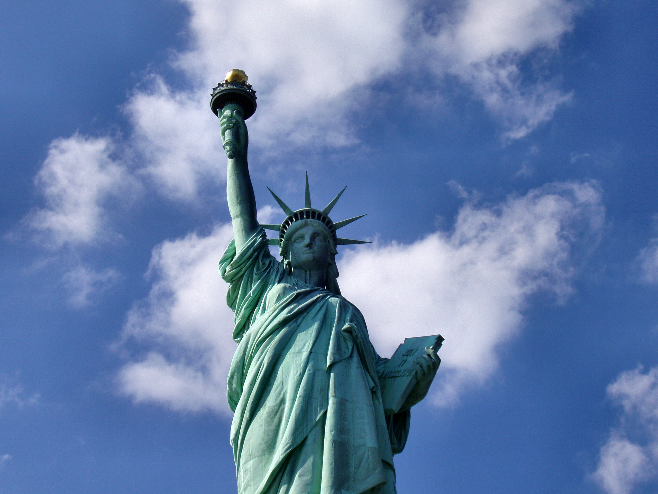 Statue of Liberty from below, front. Photo shot by Derek Jensen (Tysto), 2004-September-26